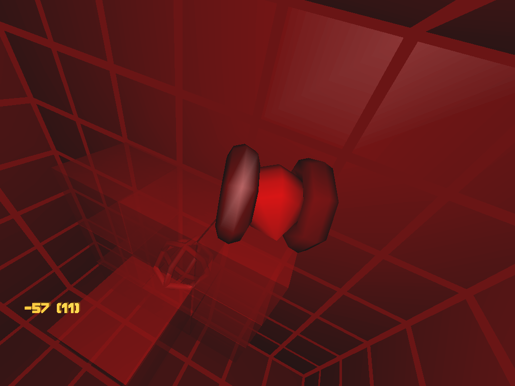 A snaphot of the open source viedogame kiki the nano bot, running under GNU/Linux.